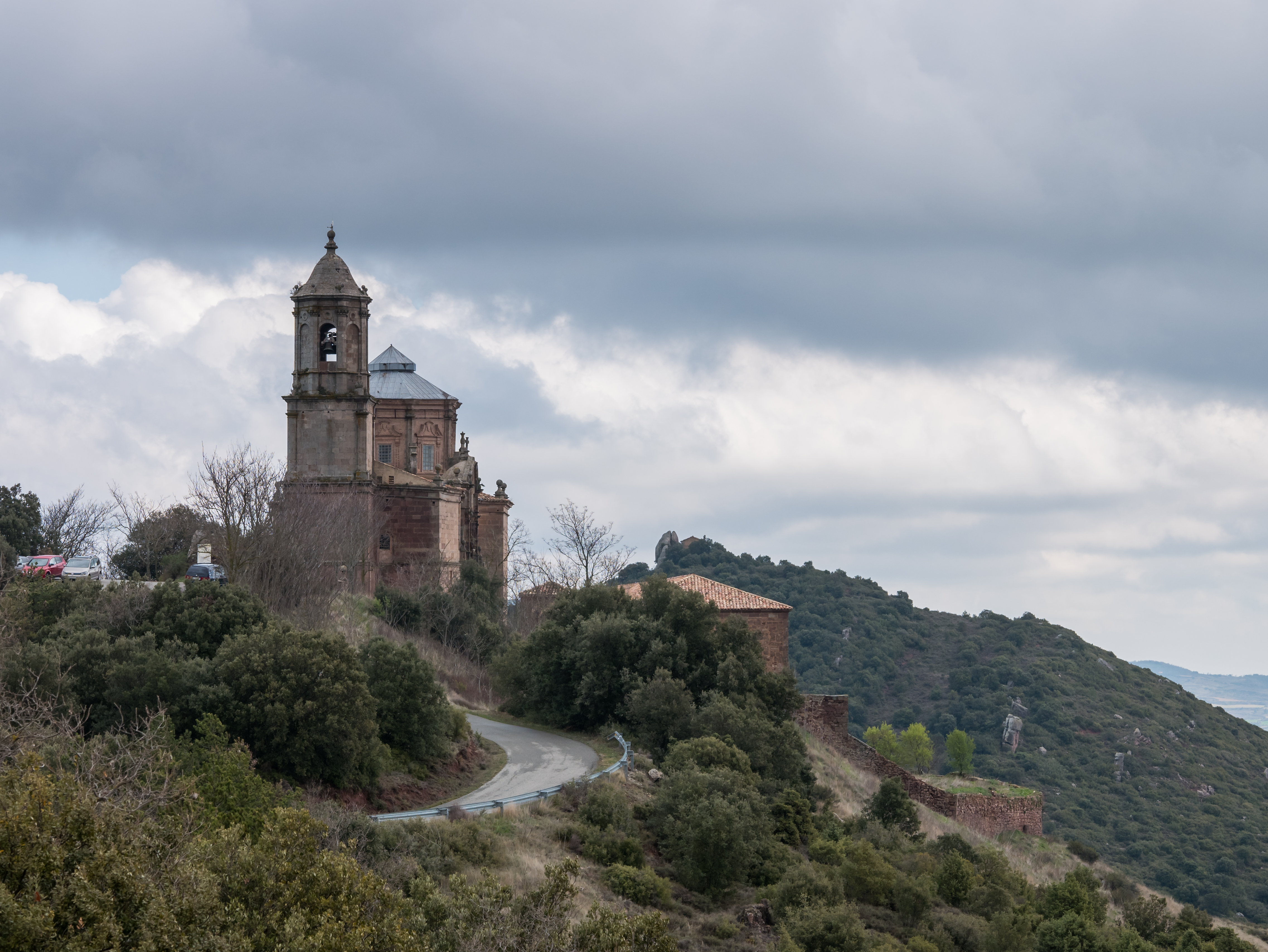 Basilica of San Gregorio Ostiense. Sorlada, Navarre, Spain